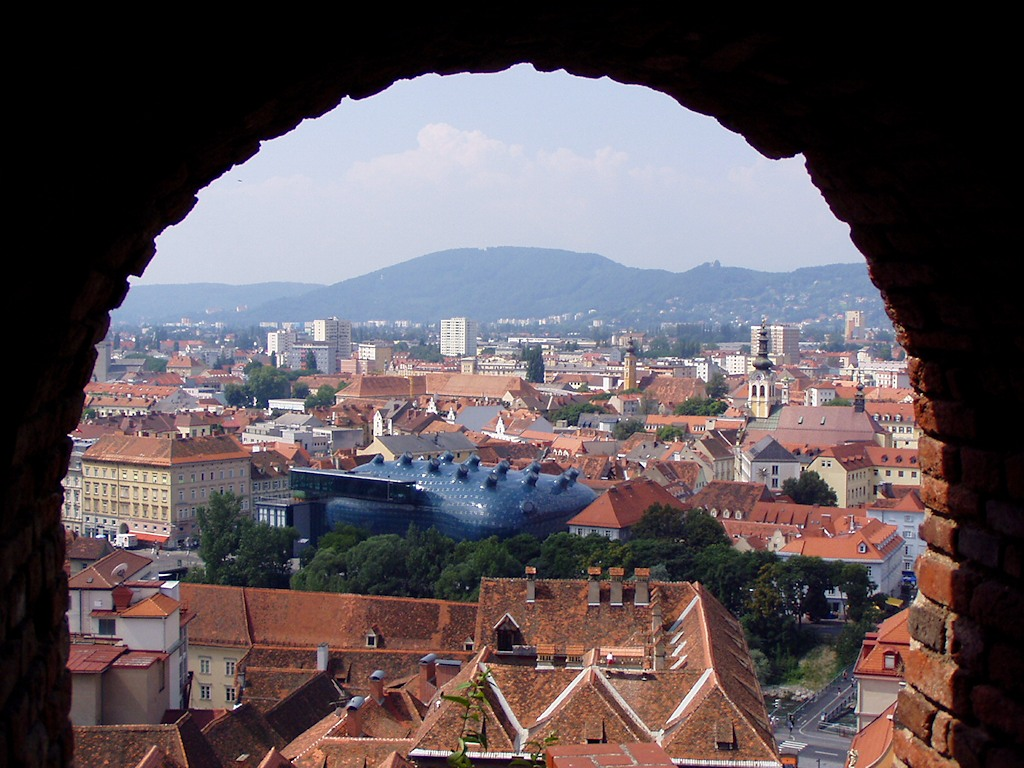 Aerial view of Graz, Austria with Kunsthaus Graz visible.